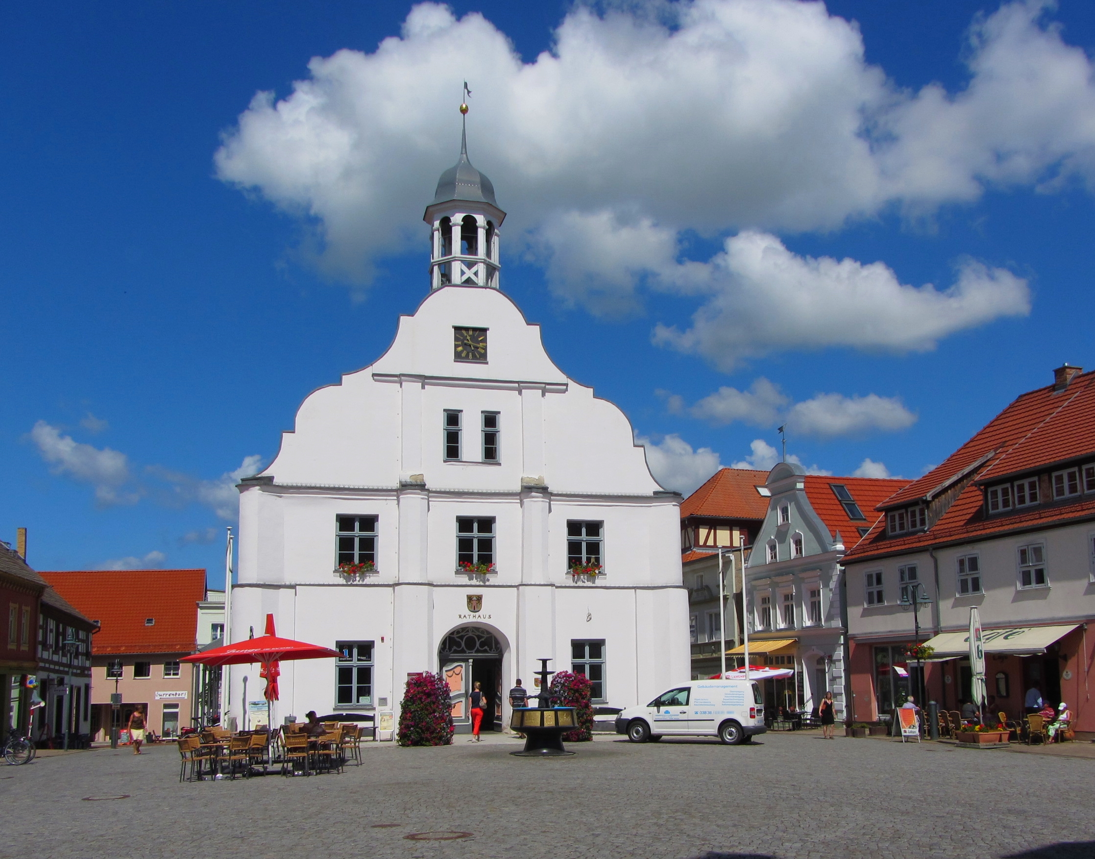 Historical town hall in Wolgast, district Vorpommern-Greifswald, Mecklenburg-Vorpommern, Germany